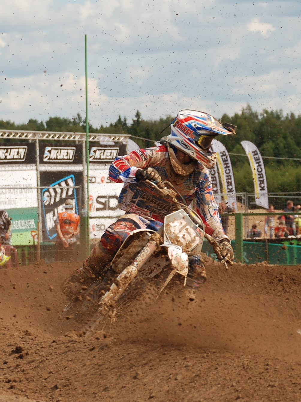 FIM Motocross World Championship 2012 - Russia, Semigorie